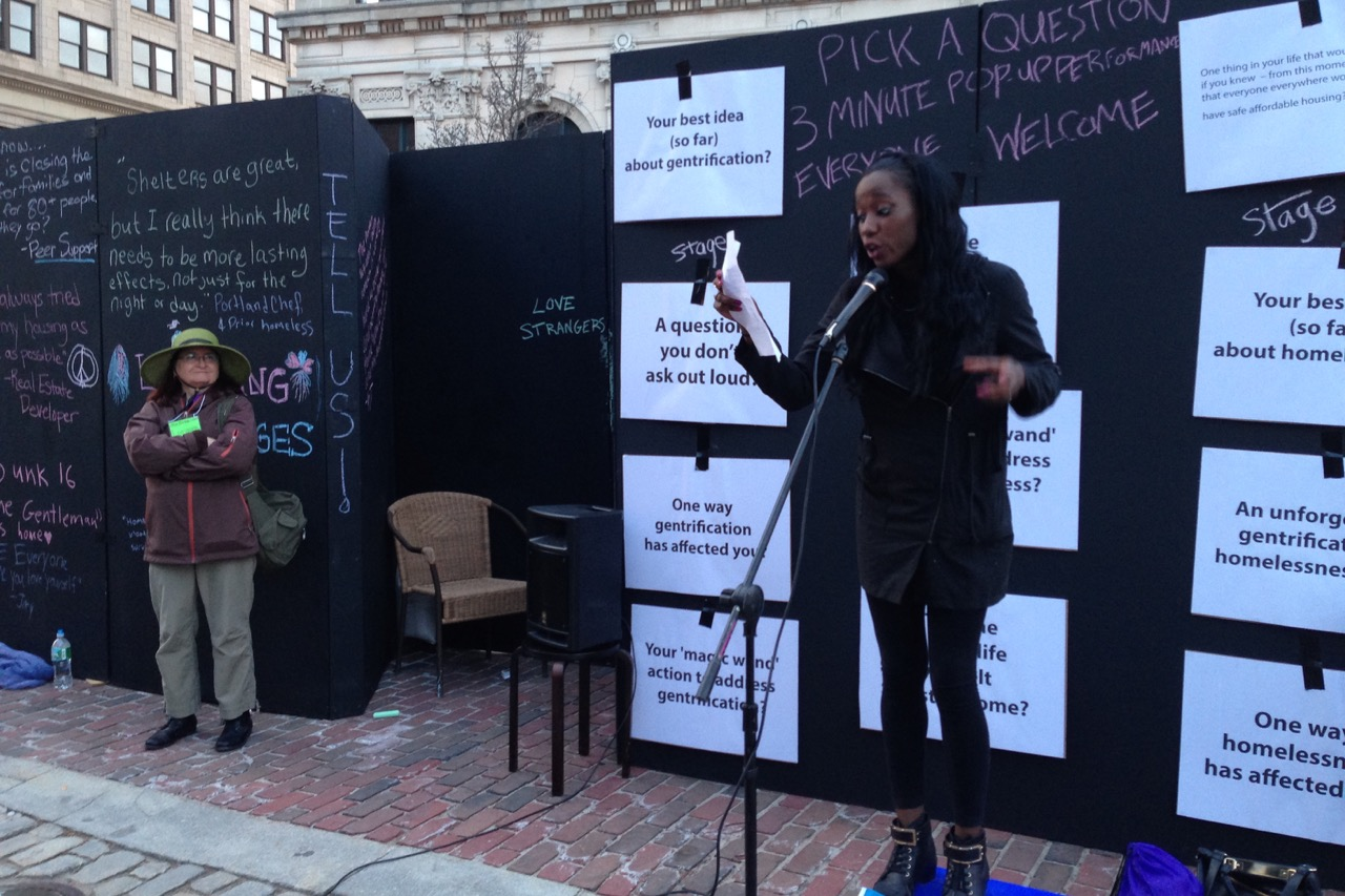 public